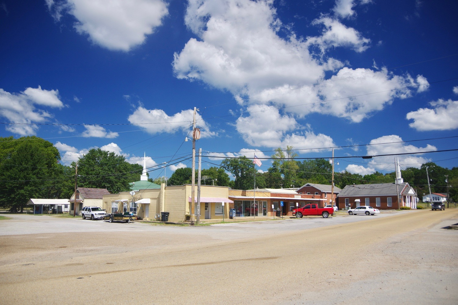 Buildings along Center Street in Potts Camp, Mississippi, United States.